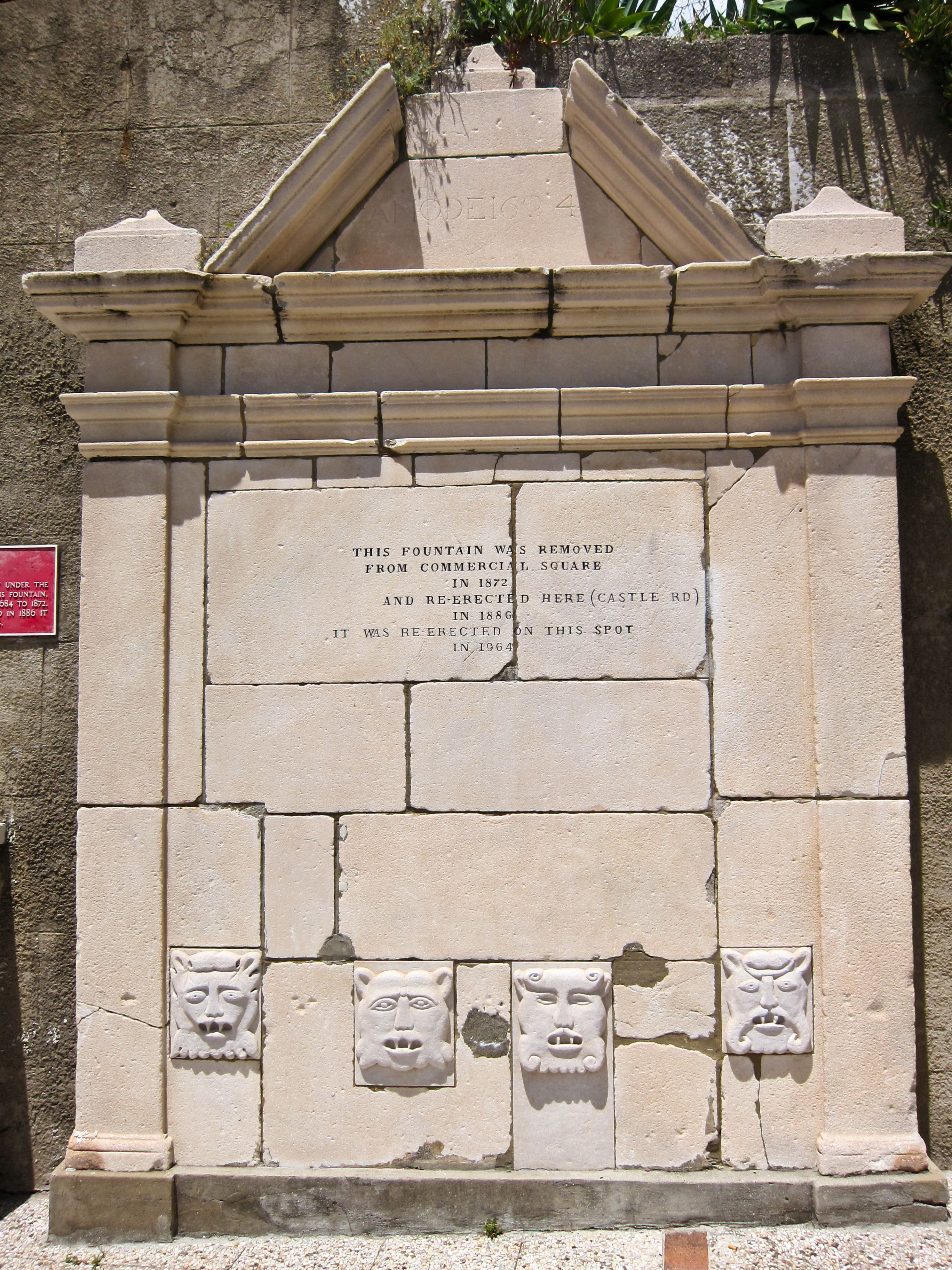 Old fountain which used to provide water from an ancient aqueduct in Gibraltar.